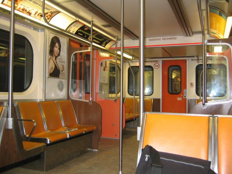 TTC subway car inside, surprisingly empty. Possibly 19 September 2005.